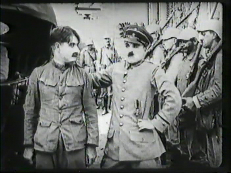 Charlie Chaplin and Syd Chaplin from "Shoulder Arms".